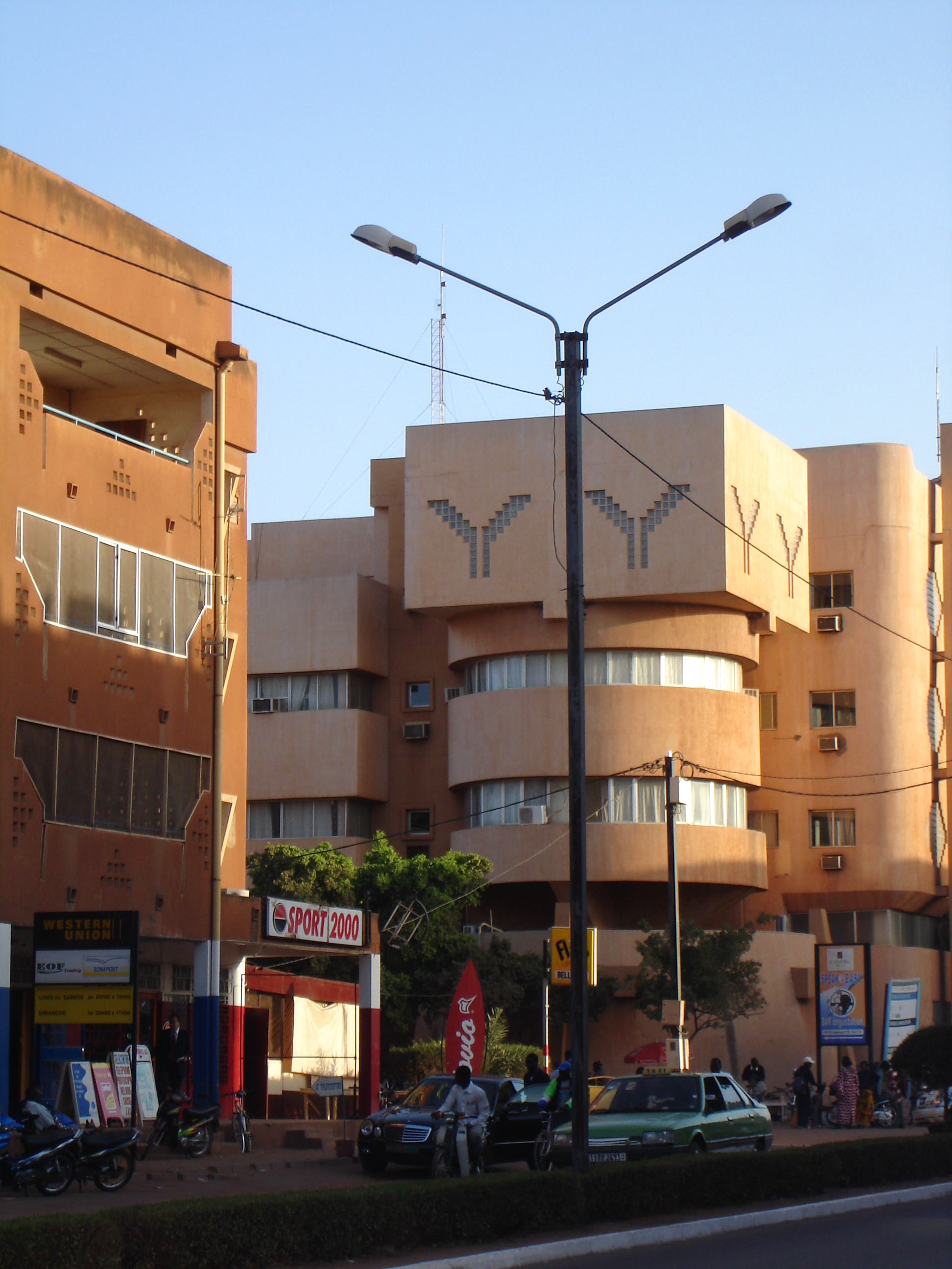 Burkina Faso: buildings on avenue Kwame-Nkrumah